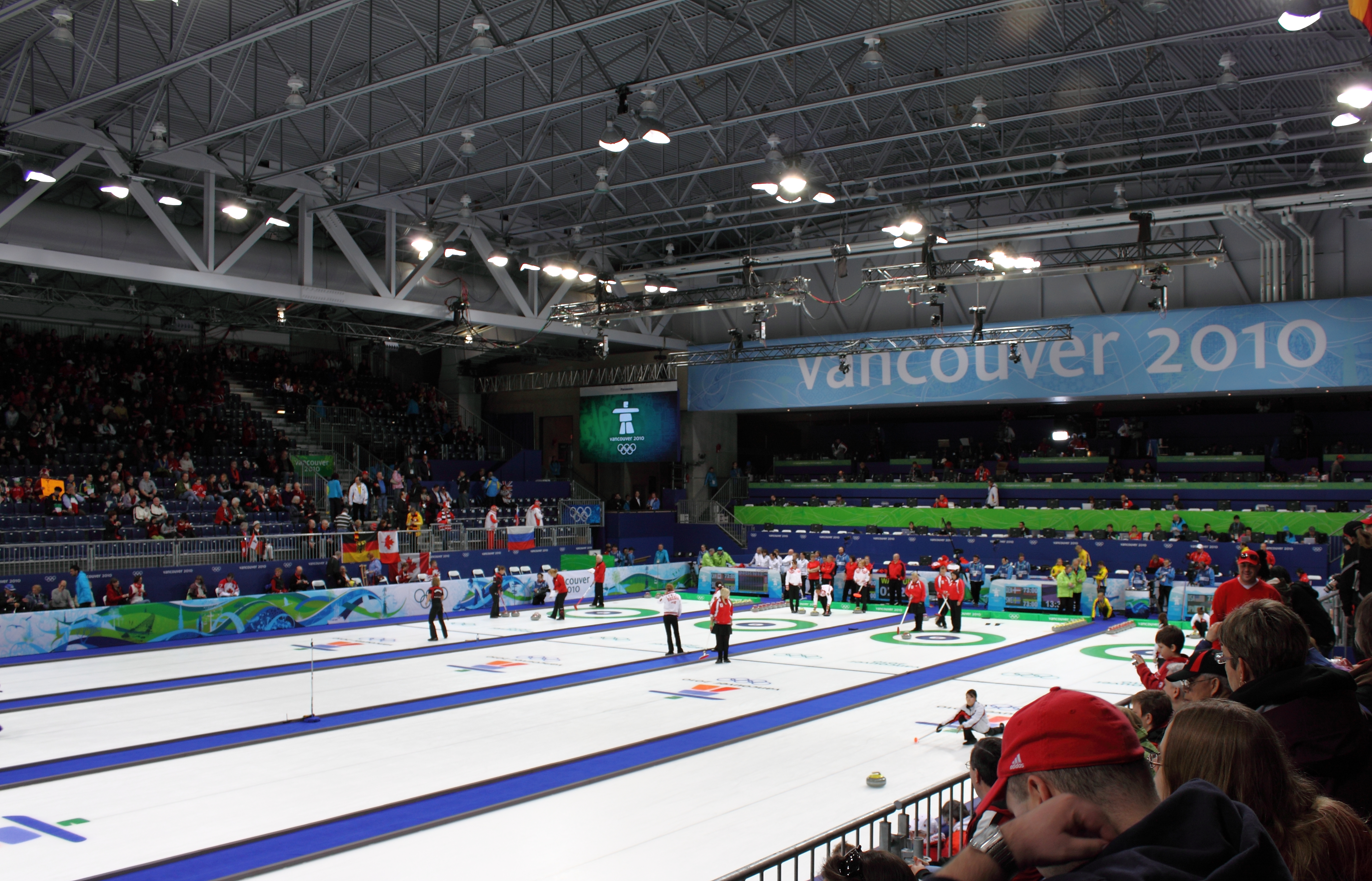 2010 Vancouver Olympic Games - Women's Curling - Preliminary from Vancouver Olympic Centre